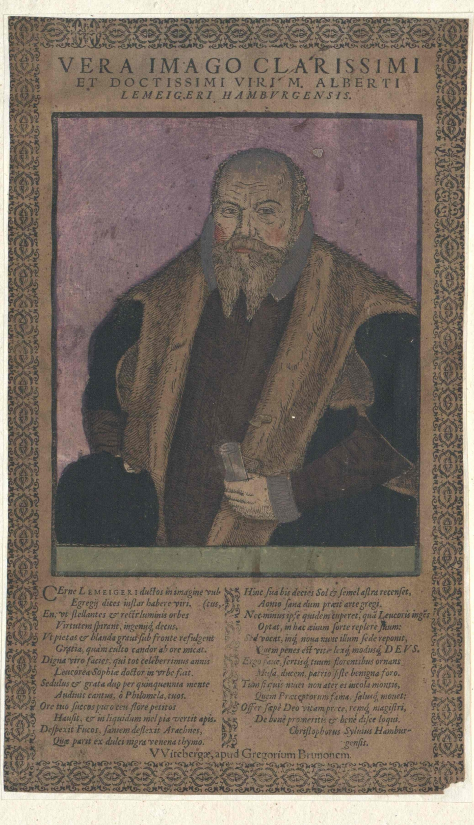 Albert Lemeier (1530-1595) german Rhetorician and moral Philosopher